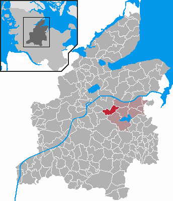 Locator maps of municipalities in Schleswig-Holstein - District Rendsburg-Eckernförde